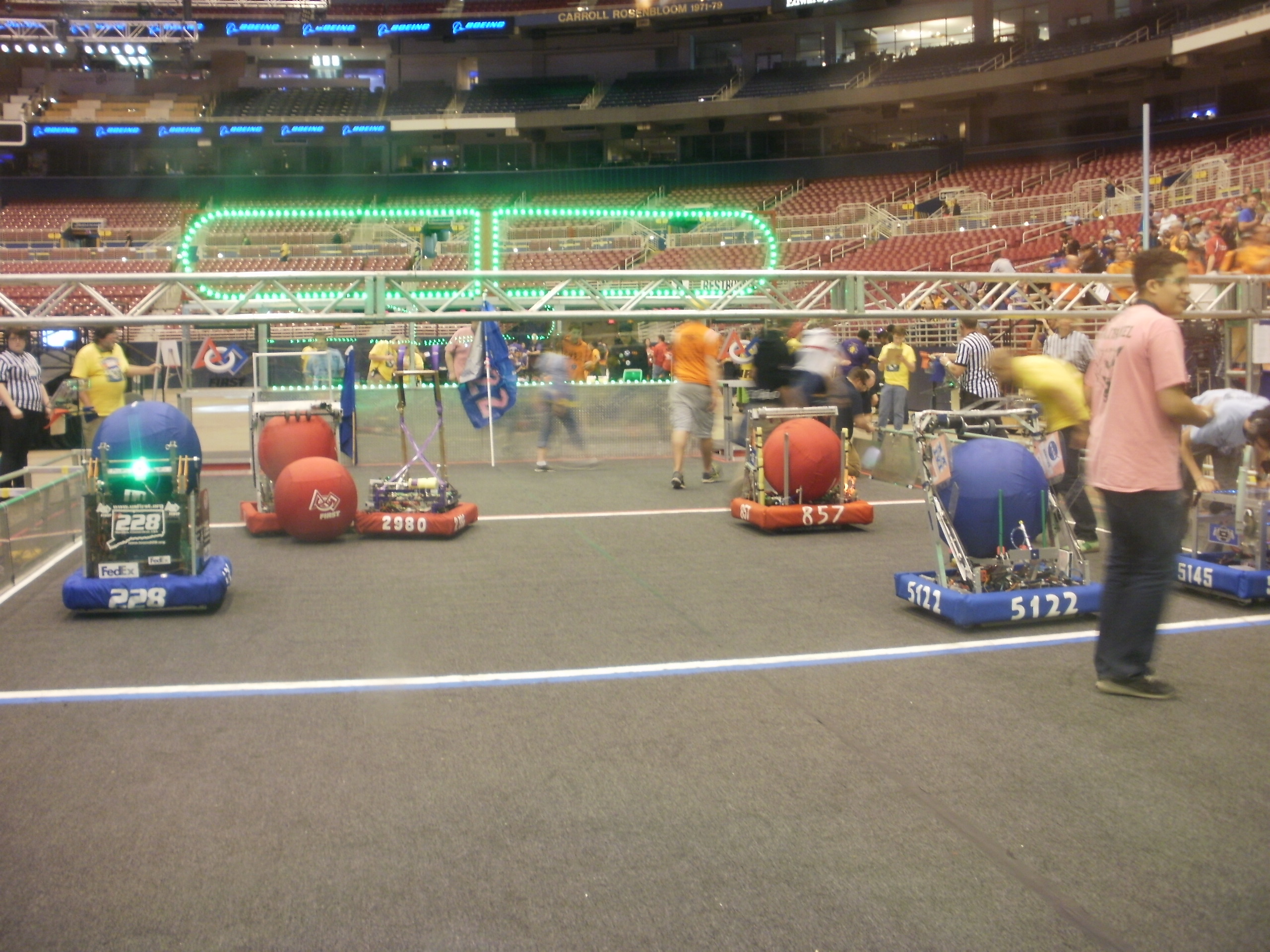 View of the field from the driver station for the 2014 FRC game Aerial Assist. Shot taken at Championship in St. Louis, Missouri, in the Edward Jones Dome.